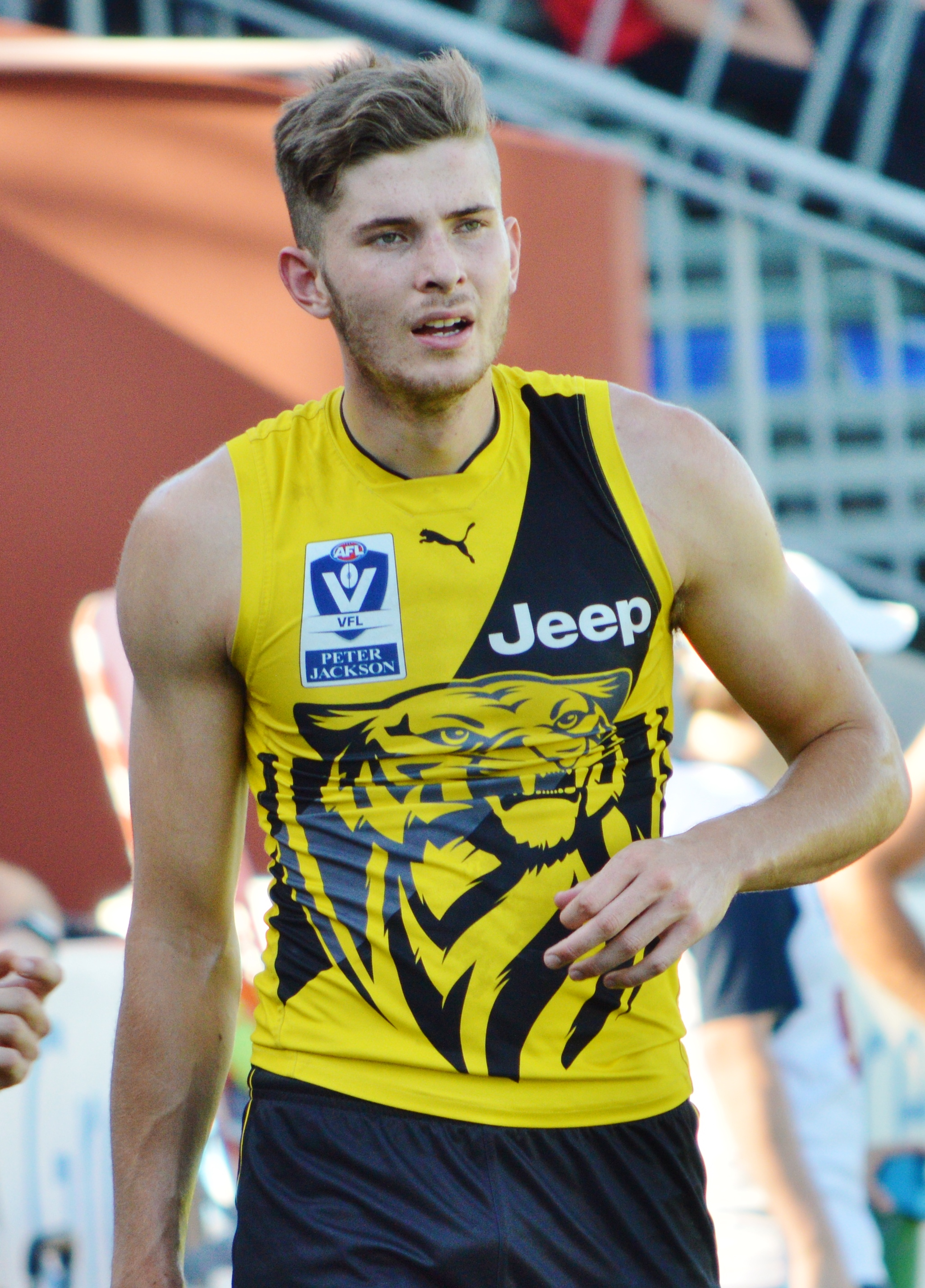 Callum-Colesman Jones with Richmond during a pre-season VFL practice match in March 2018